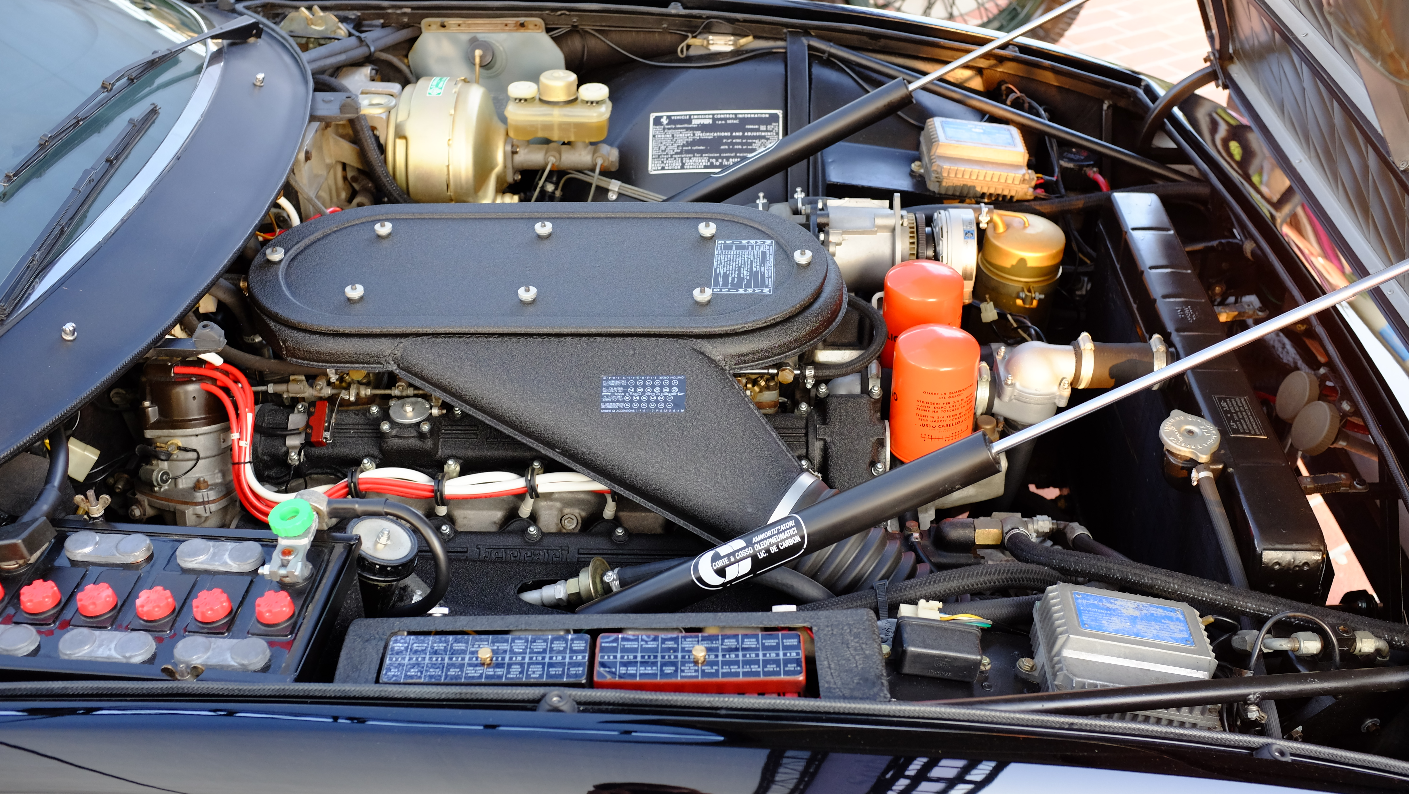 Engine compartment of a 1973 Ferrari 365 GTB/4 Daytona, USA version, chassis number 16961. Photographed at RM Sotheby's 2018 Monterey Auction.